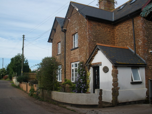 Haynes Dairy Cottages, Ratsloe